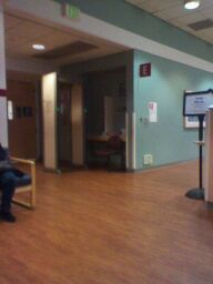 kaiser emergency dept